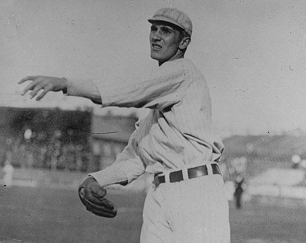 1912 photograph of Ben Van Dyke, pitcher for the Boston Red Sox. This image is cropped slightly from the original plate.